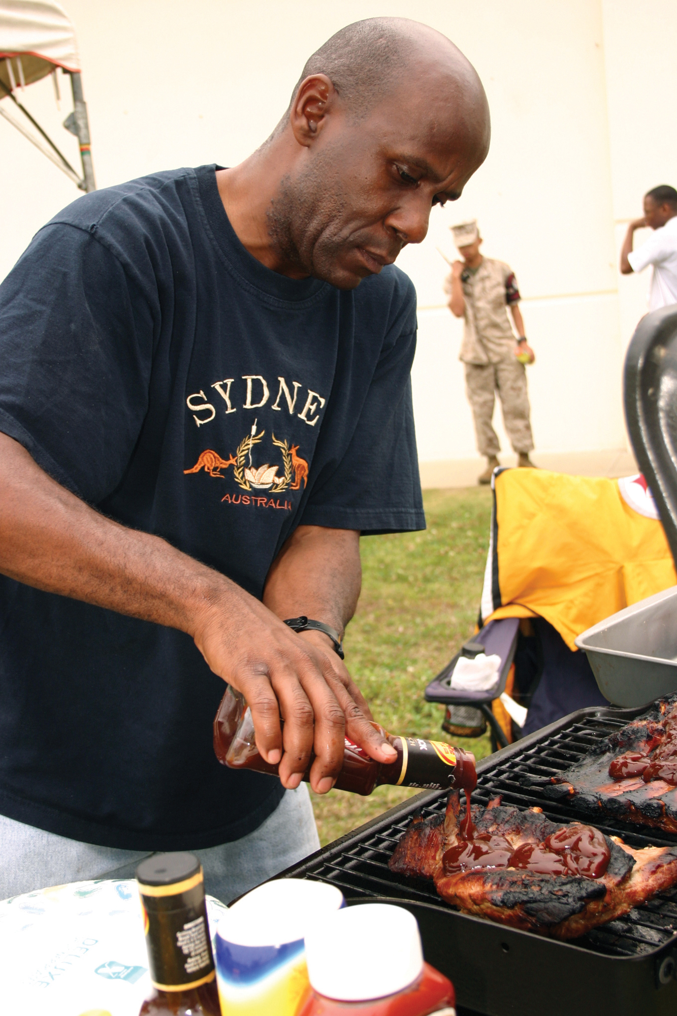 Gunnery Sgt. Benjamin Smith, with 3rd Maintenance Battalion, 3rd Marine Logistics Group, III Marine Expeditionary Force, pours barbecue sauce on his ribs during the annual Camp Hansen BBQ Cook Off at the Hansen exchange April 30. The secret to good ribs is not the sauce; it is marinating overnight, and watching the grill to keep the meat from burning, Smith said. His secret worked for him, as he took second place in the competition.